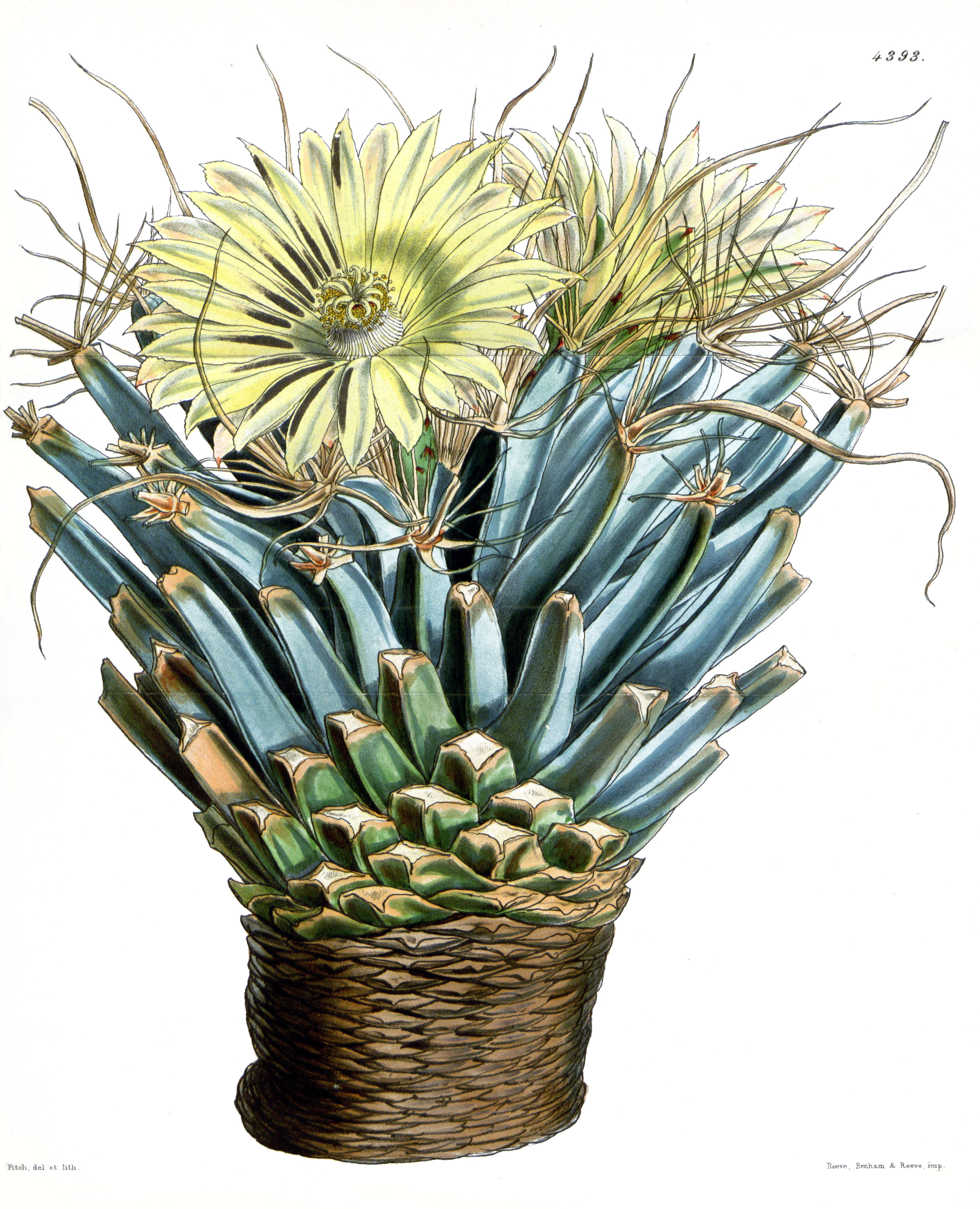 Iconotyp of Leuchtenbergia principis